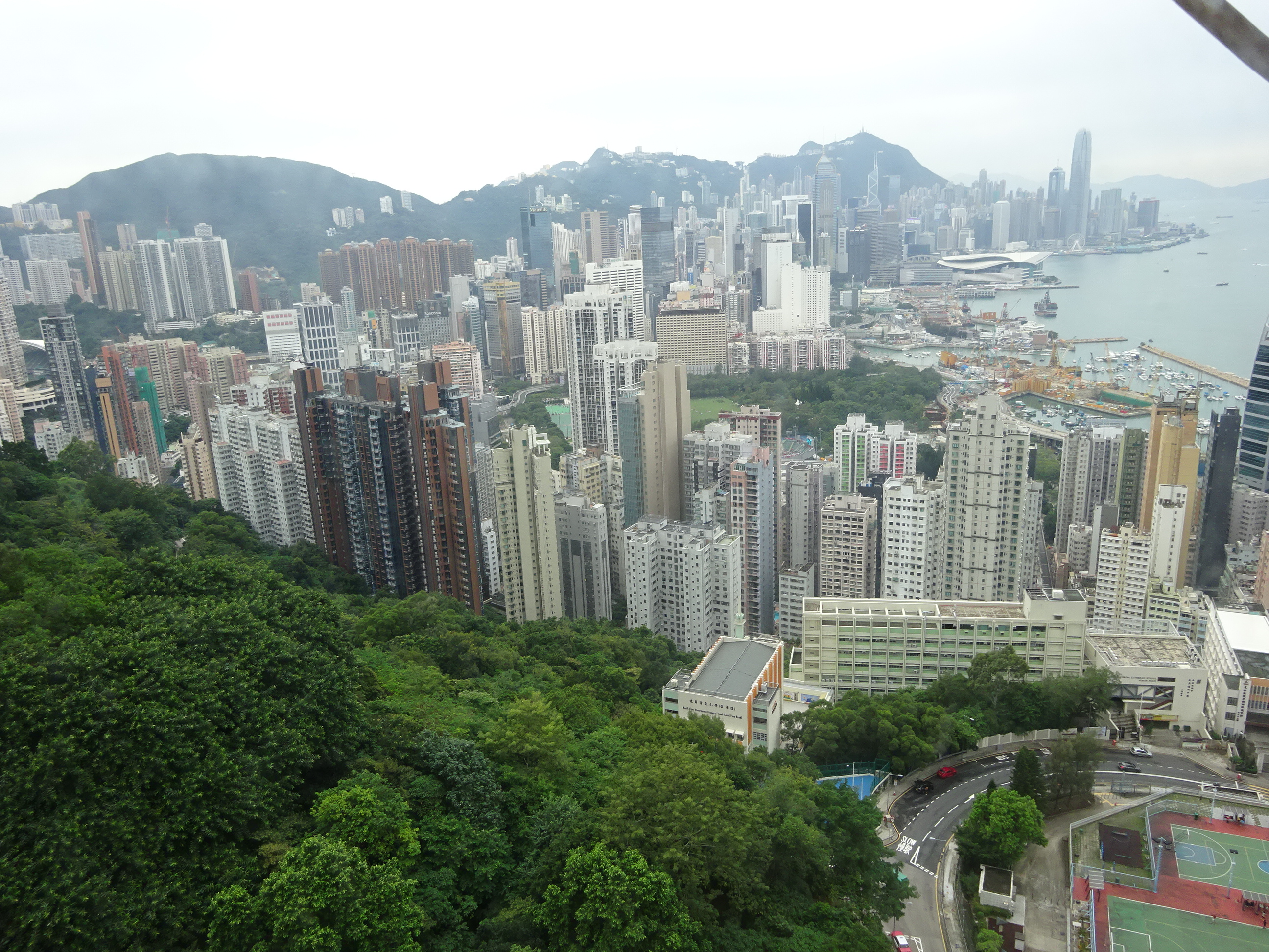 HK North Point 雲景道 Cloud View Road 雲景台 Evelyn Towers view